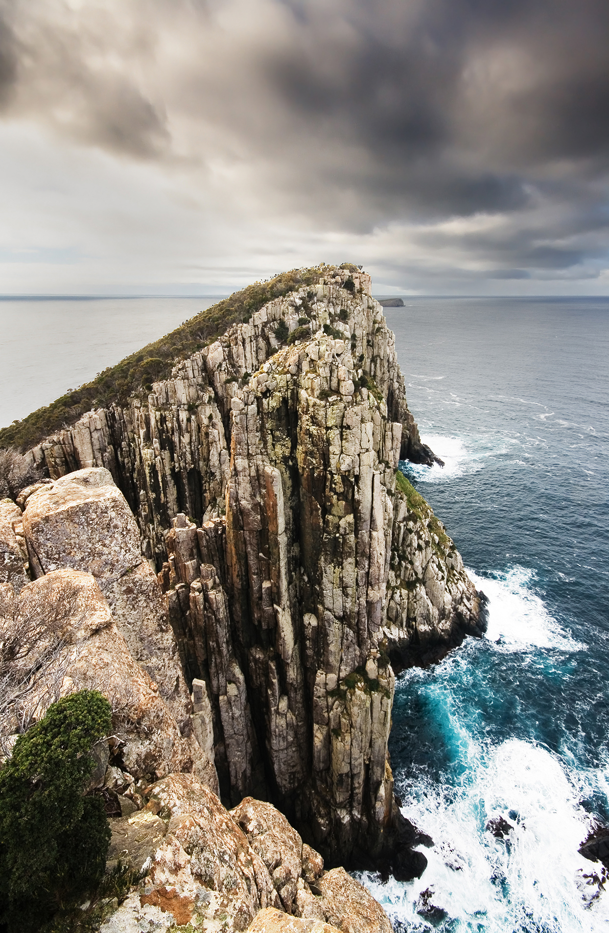 Candlestick, Cape Huay, The Tasman Peninsula, Tasmania, Australia. The Lanterns and the Hippolyte Rocks are visible behind.